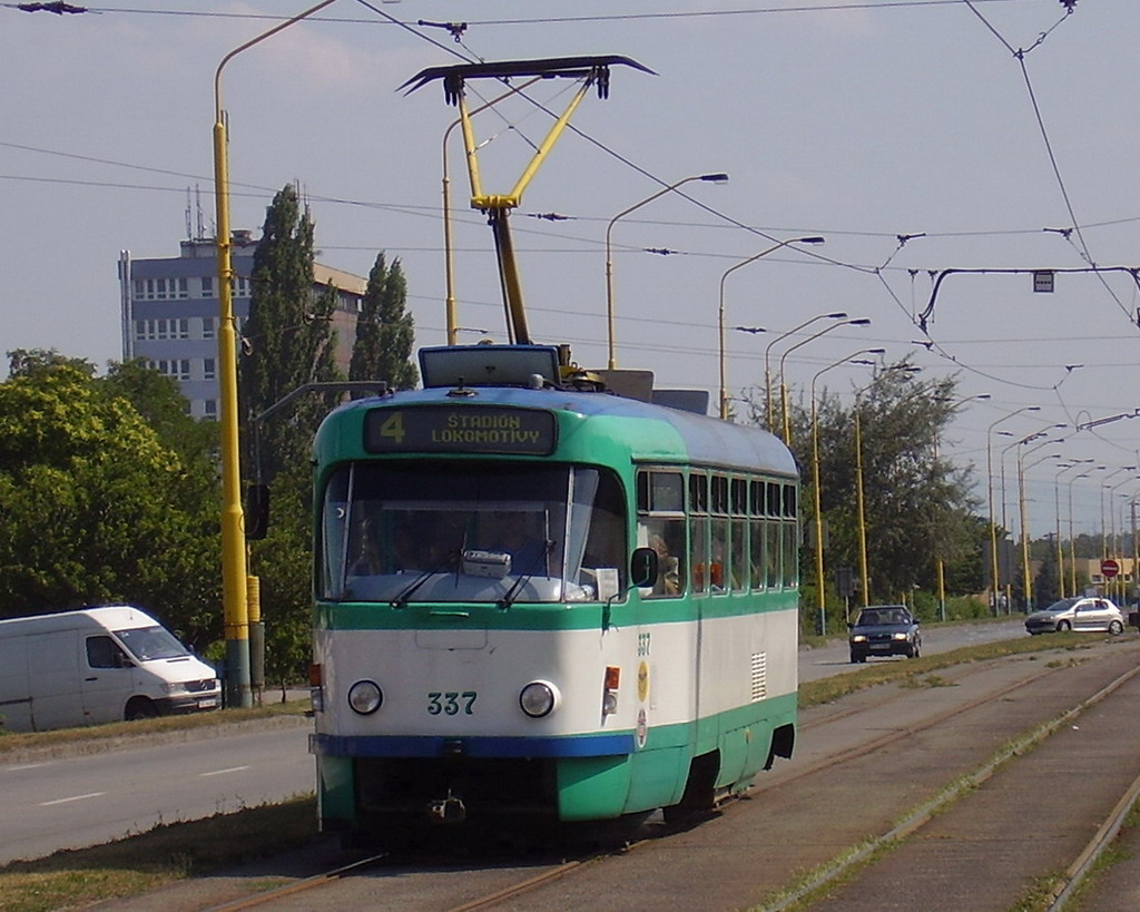 Modernized T3SUCS tram by Sheep221